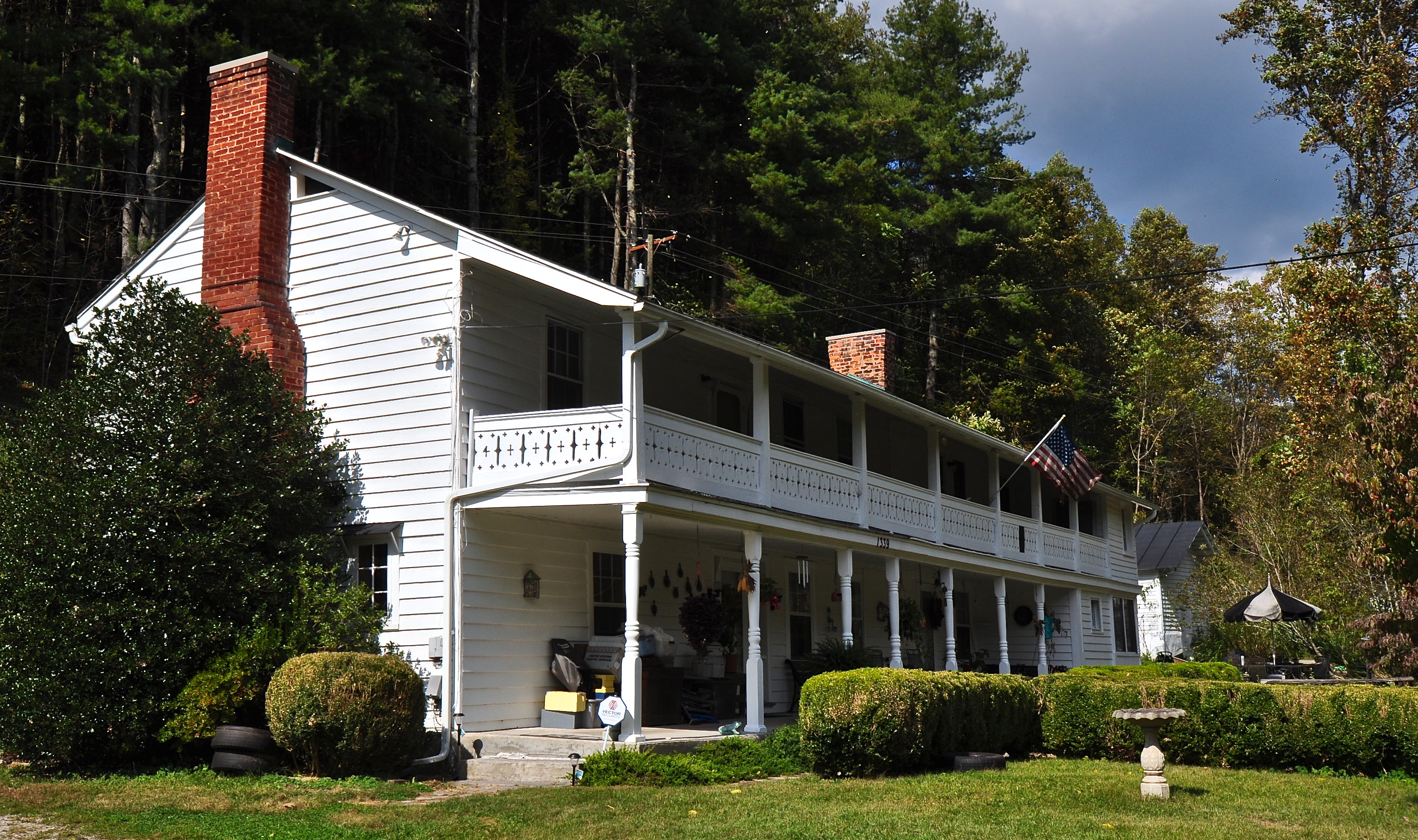 William Barnett House, Allegheny Springs, Virginia